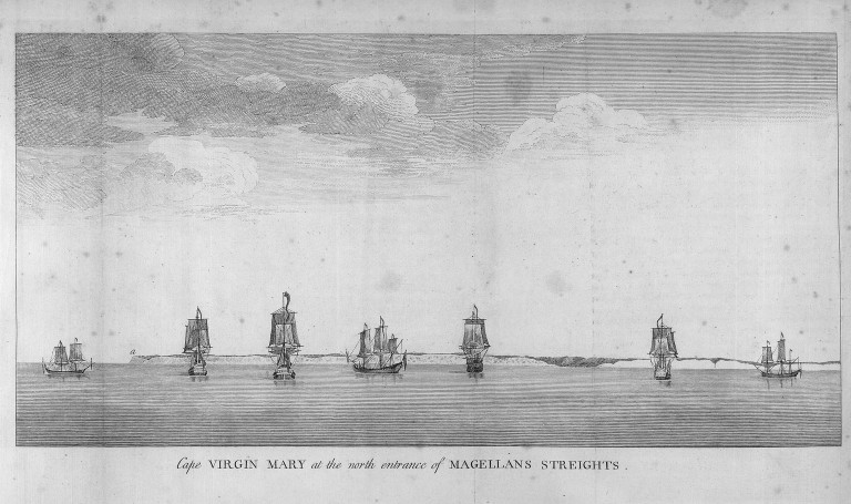 [Illustrations de A Voyage round the world in the years MDCCXL, I, II, II, IV. By George Anson. Compiled... by Richard Walter] / J. Mason, grav. ; Richard Walter, aut. du texte Éditeur : J. and P. Knapton (london) 1748